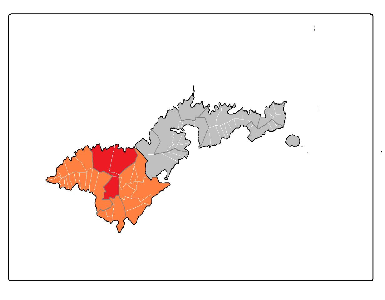 Locator map of American Samoa: Leasina county